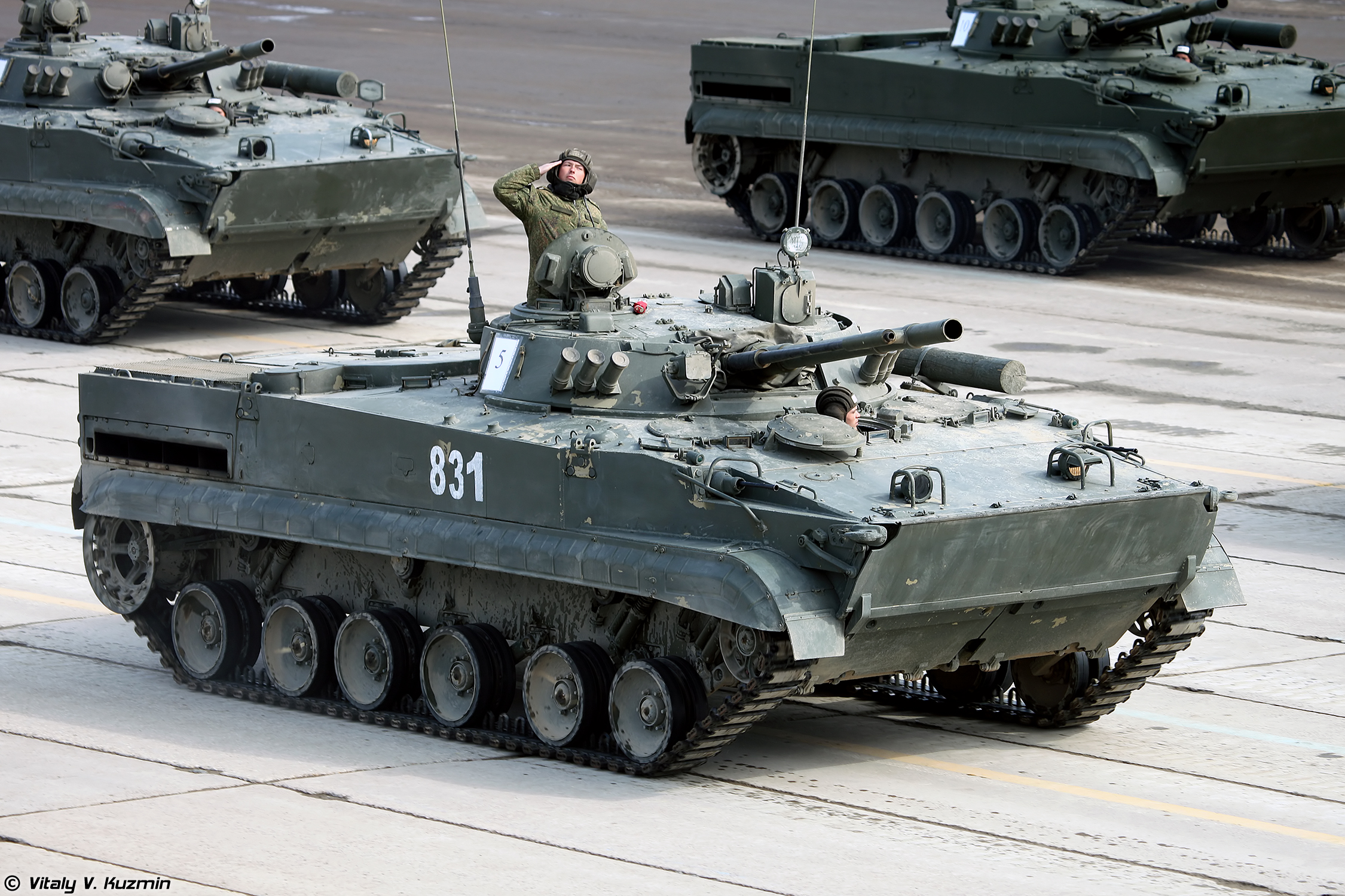 BMP-3 IFV